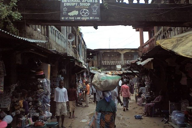 This is Ariaria Market in Abia State